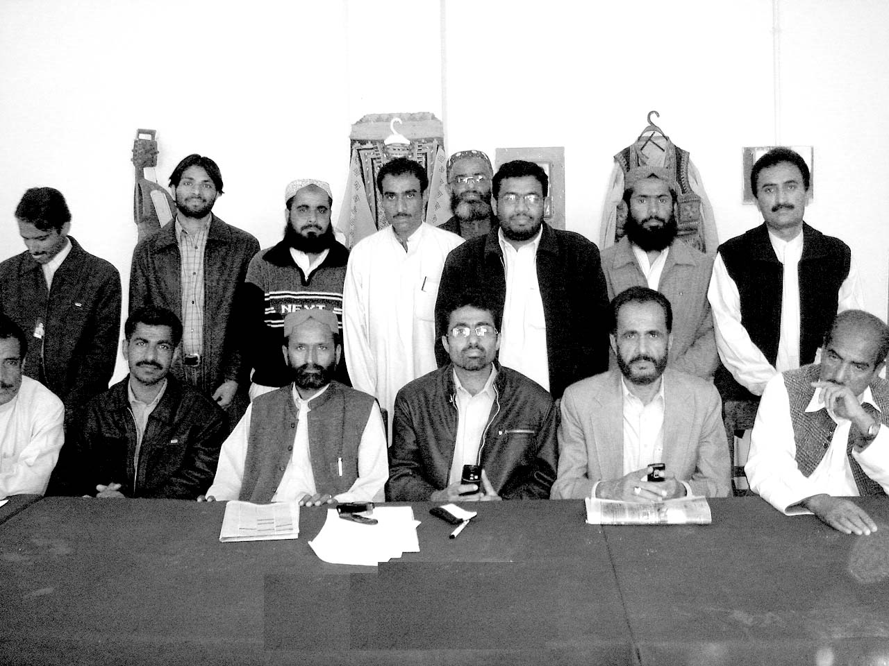 Meeting of Brahui intellectuals at University of Balochistan. Brahui Language Board was formed during the meeting.